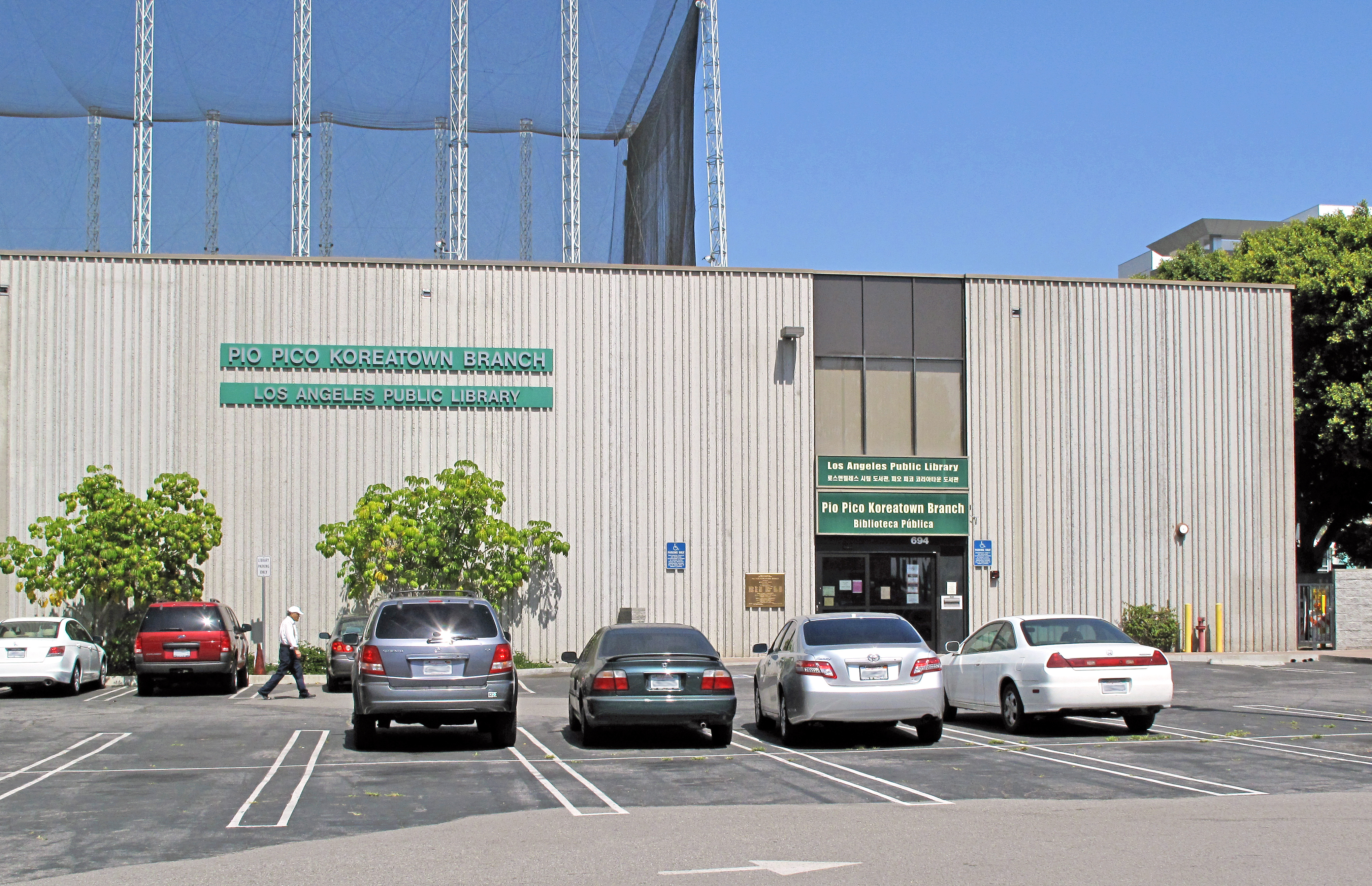 Pio Pico Koreatown Branch of the Los Angeles Public Library, Los Angeles, California